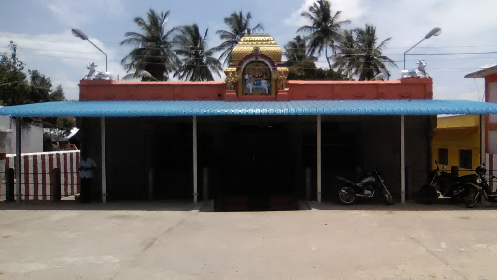 ஒசூர் கல்யாண சூடேசுவரர் கோயில்